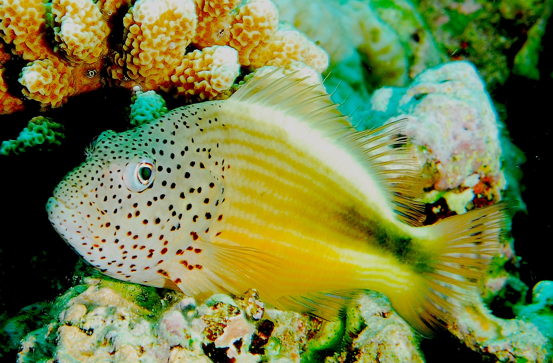 Paracirrhites forsteri